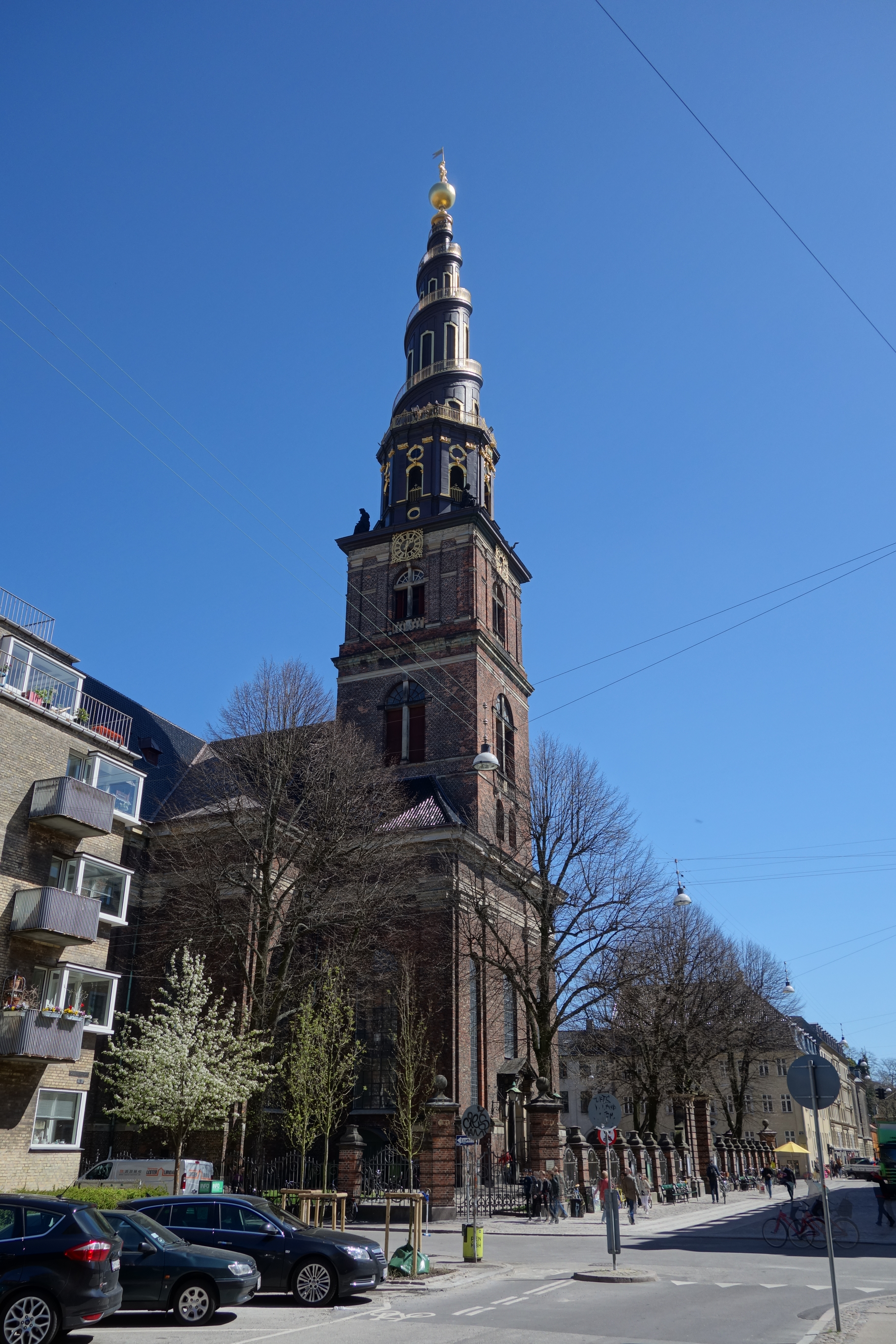 The Church of Our Saviour / Vor Frue Kirke in Copenahgen, Denmark